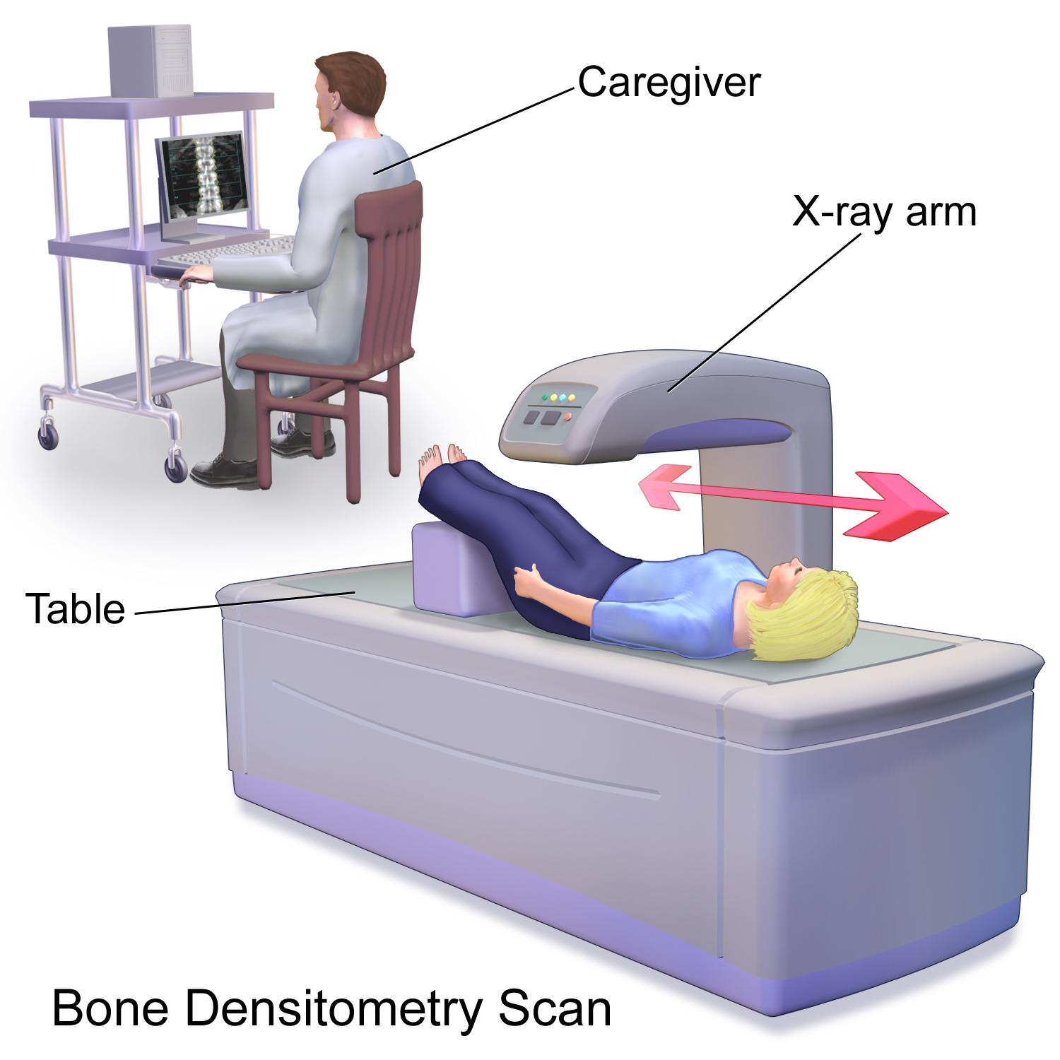 Bone Densitometry Scan. This image was donated by Blausen Medical. Please visit our website to see more medical illustrations and animations.